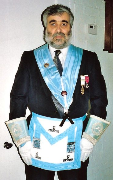 Worshipful Master of a Craft Masonic Lodge